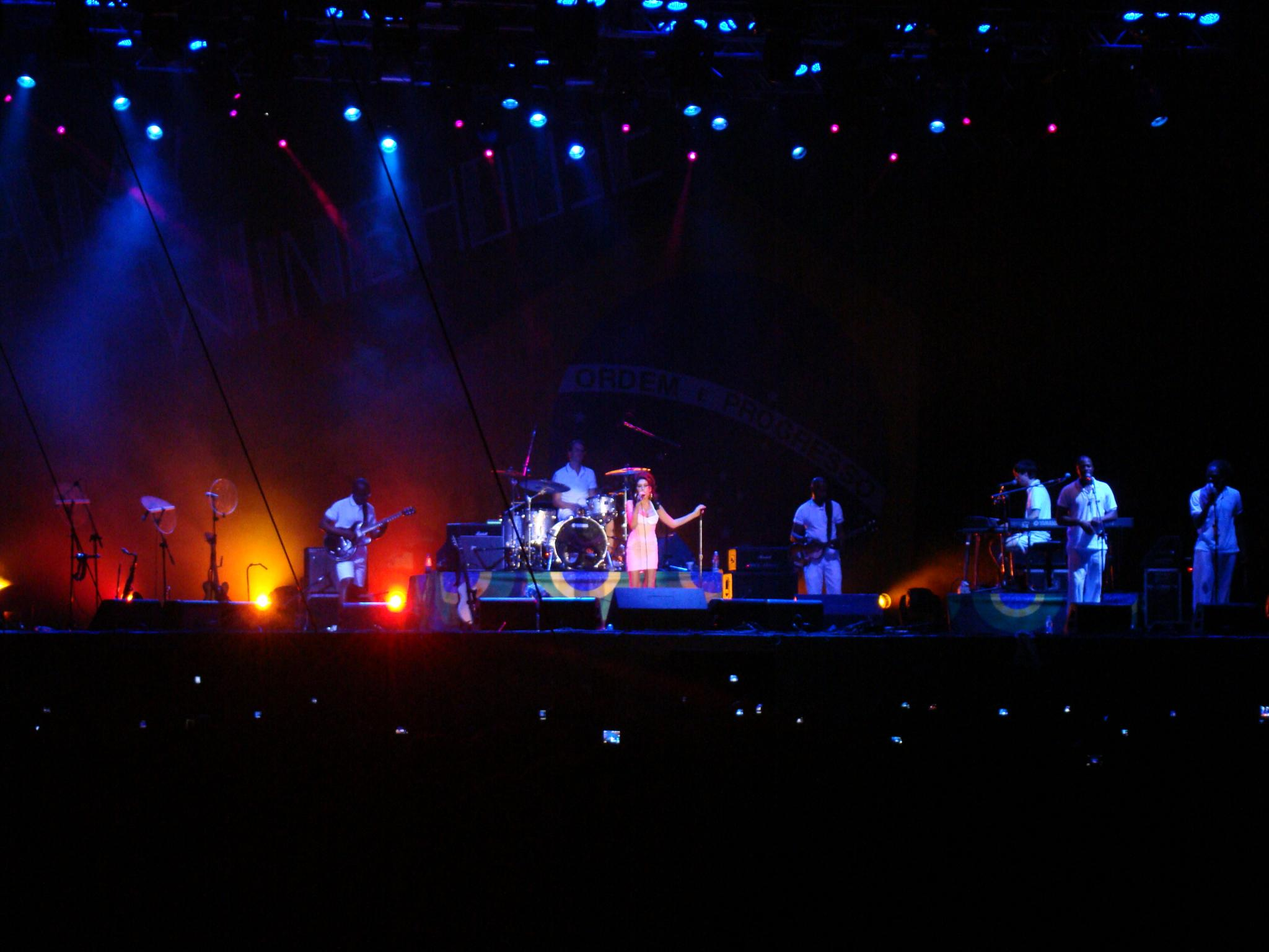 Amy Winehouse performs live on stage at Pacha as part of Summer Soul Festival on January 8, 2011 in Florianopolis, Brazil.